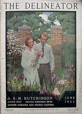 Cover of The Delineator magazine for June, 1922, picturing a man and a woman in a garden, the woman holding flowers. Text features the names of authors A.S.M. Hutchinson, Angelo Patri and Frances Parkinson. "Summer Fashions and Sports Clothes."